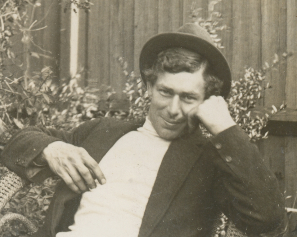 Portrait of Walter Langcake, Australian woodcarver and sculptor (1889-1967), taken in Melbourne in 1920s by unknown